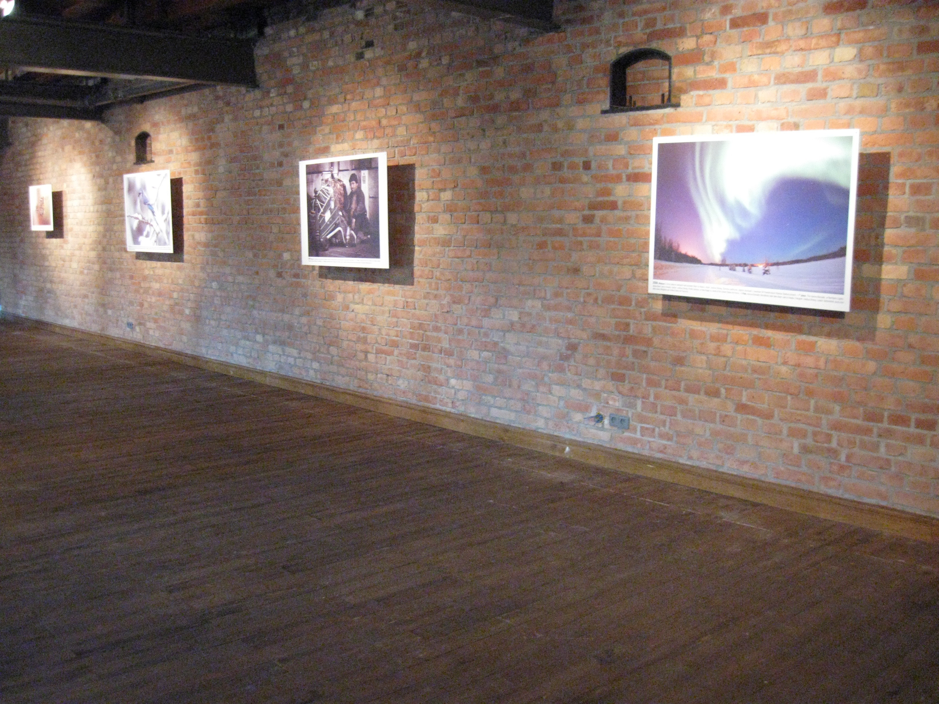 Picture of the Year exhibition in Stary Browar - Poznań, Poland.